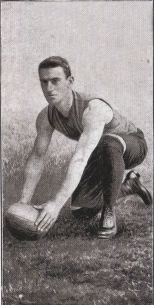 Photo of Vin Coutie taken before 1911